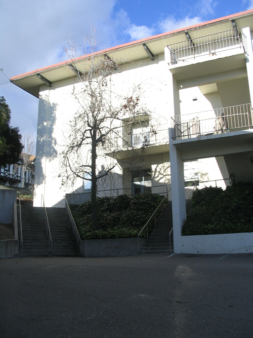 The office of Piedmont Unified School District, known as the district office, shares a building with Piedmont High School and Millennium High School and sits next to Piedmont Middle School. Photo taken February 23, 2007.